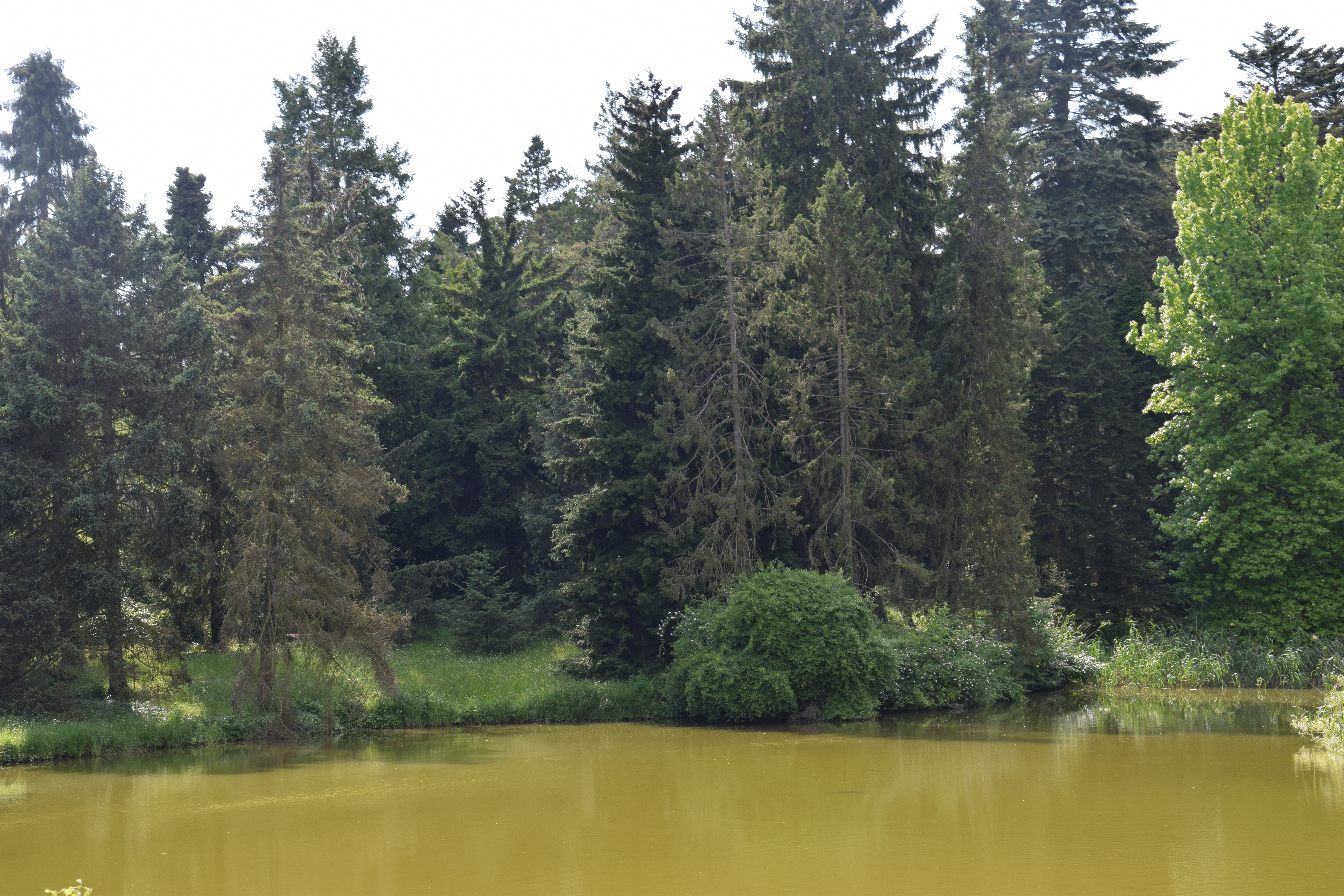 Botanischer Garten Berlin-Dahlem, May 2018